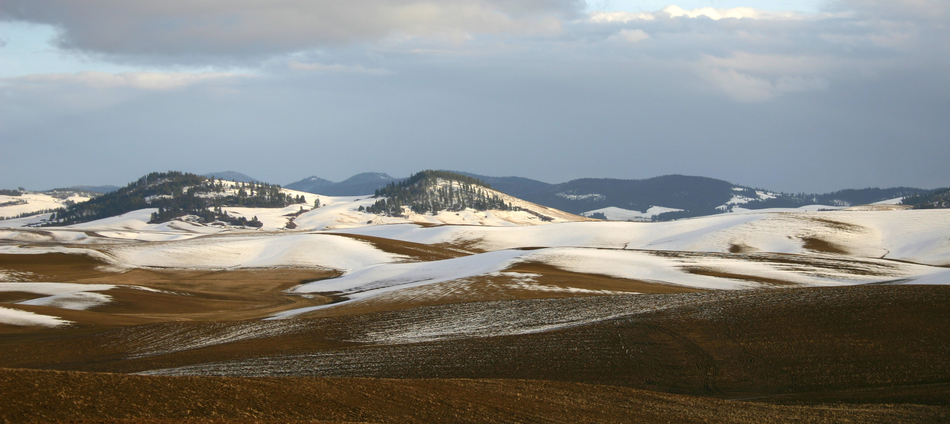 The Palouse region of Northern Idaho, USA